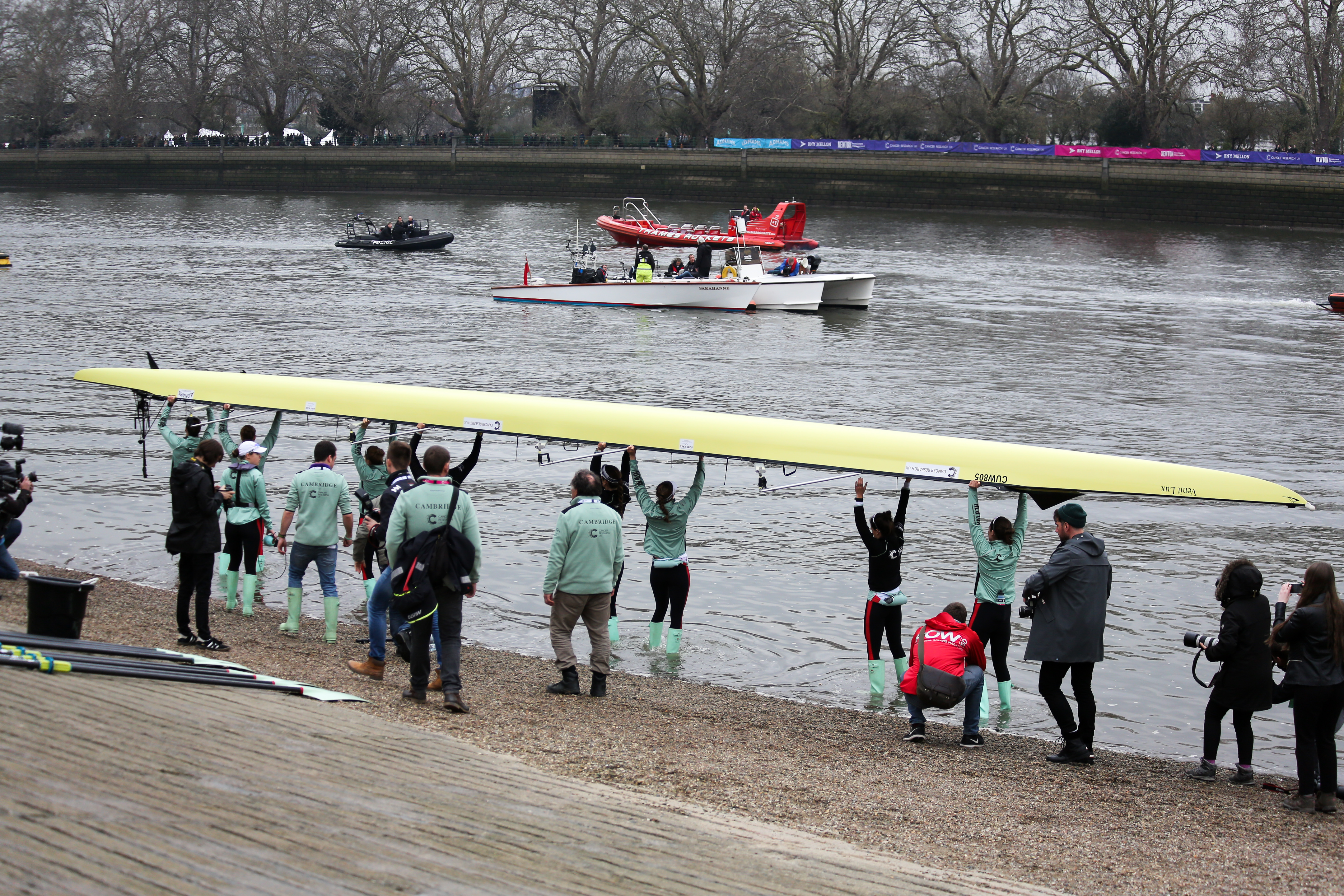 The Cancer Research UK Boat Race 2018 - Women's Blues Race